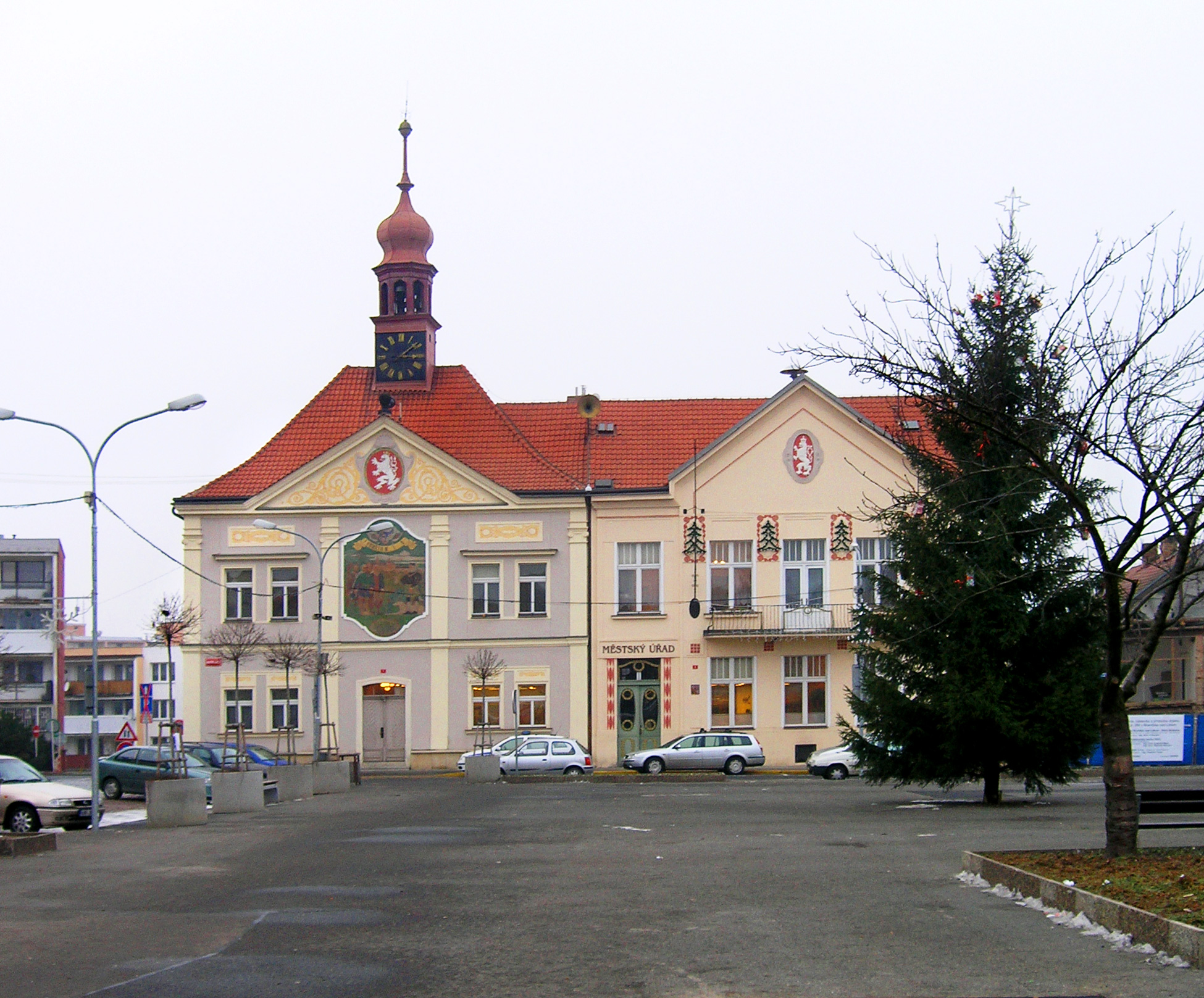 Town Hall at Masarykovo square in Brandýs nad Labem, Czech Republic